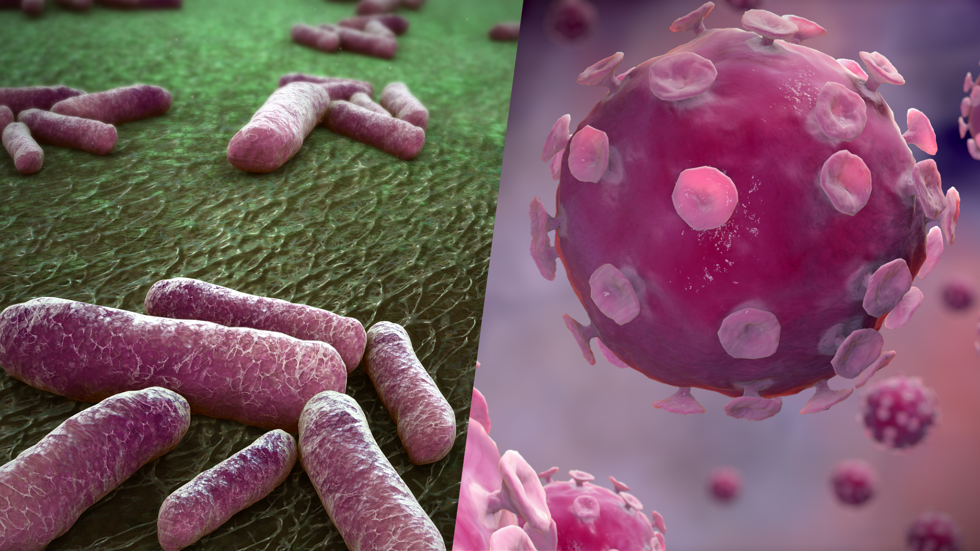 The structure of common causative microorganisms of tonsillitis—bacteria and virus